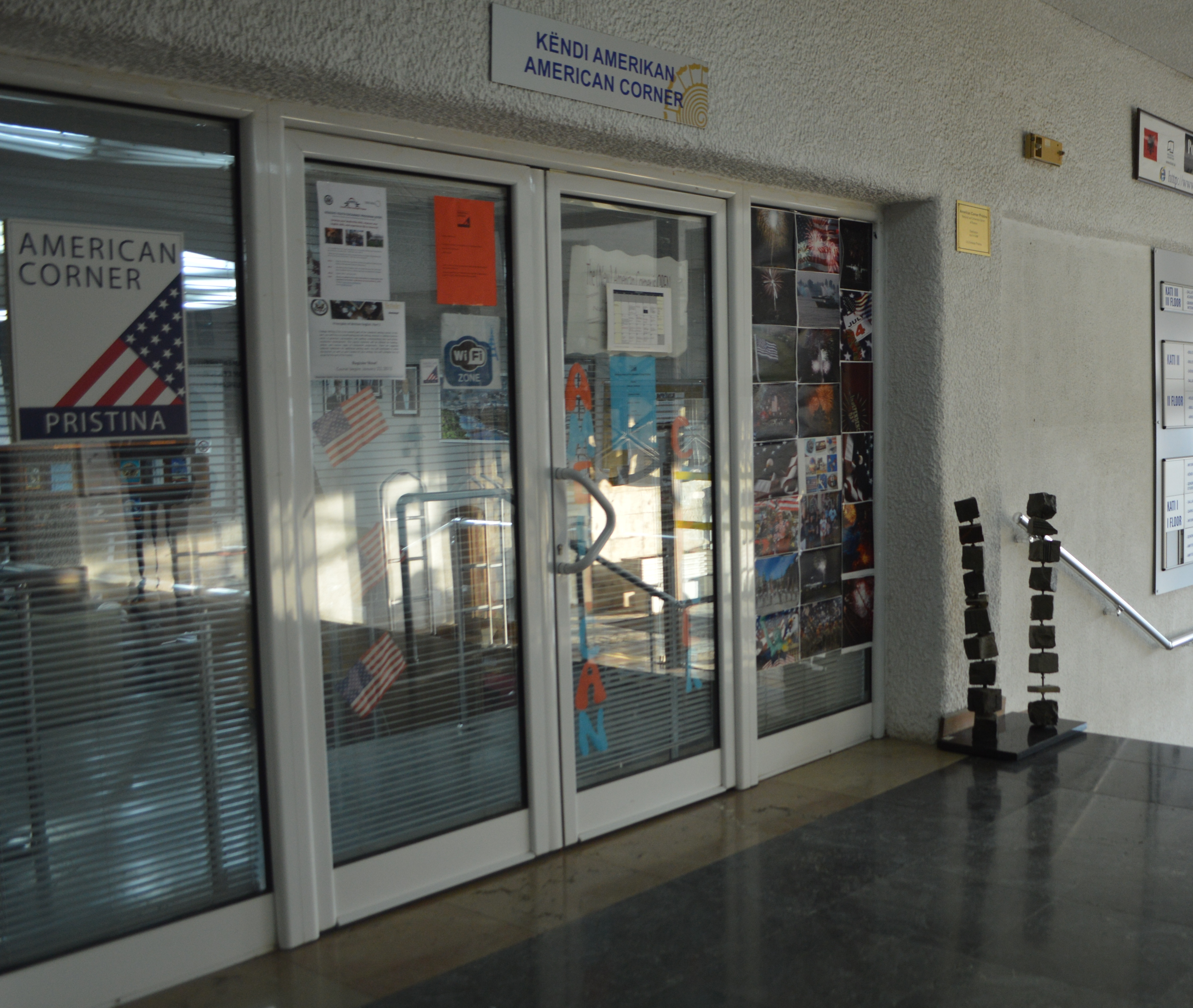 National Library of Kosovo